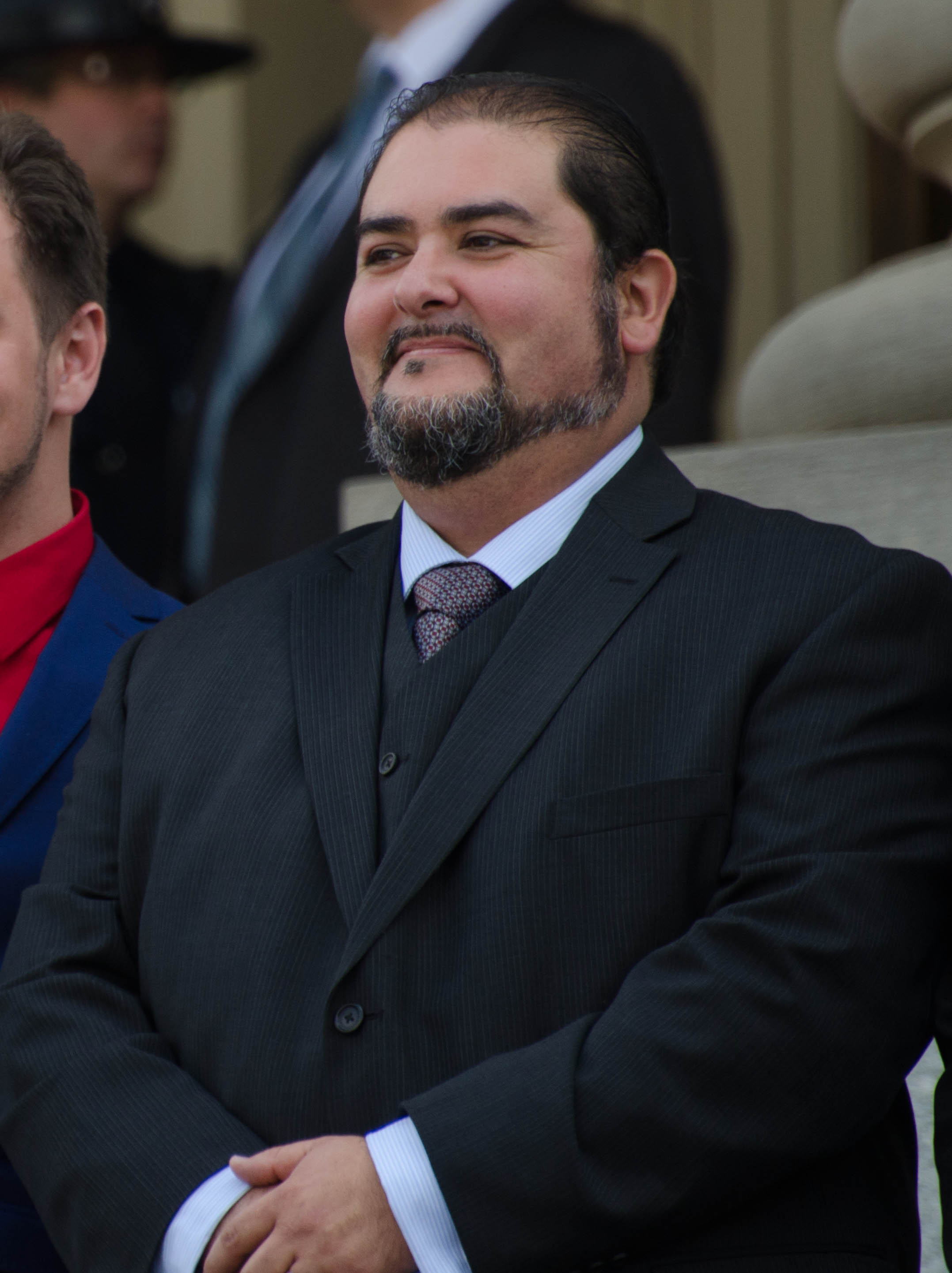 Rod Loyola at the 2015 Alberta Premier/Cabinet swearing-in ceremony, by Connor Mah.